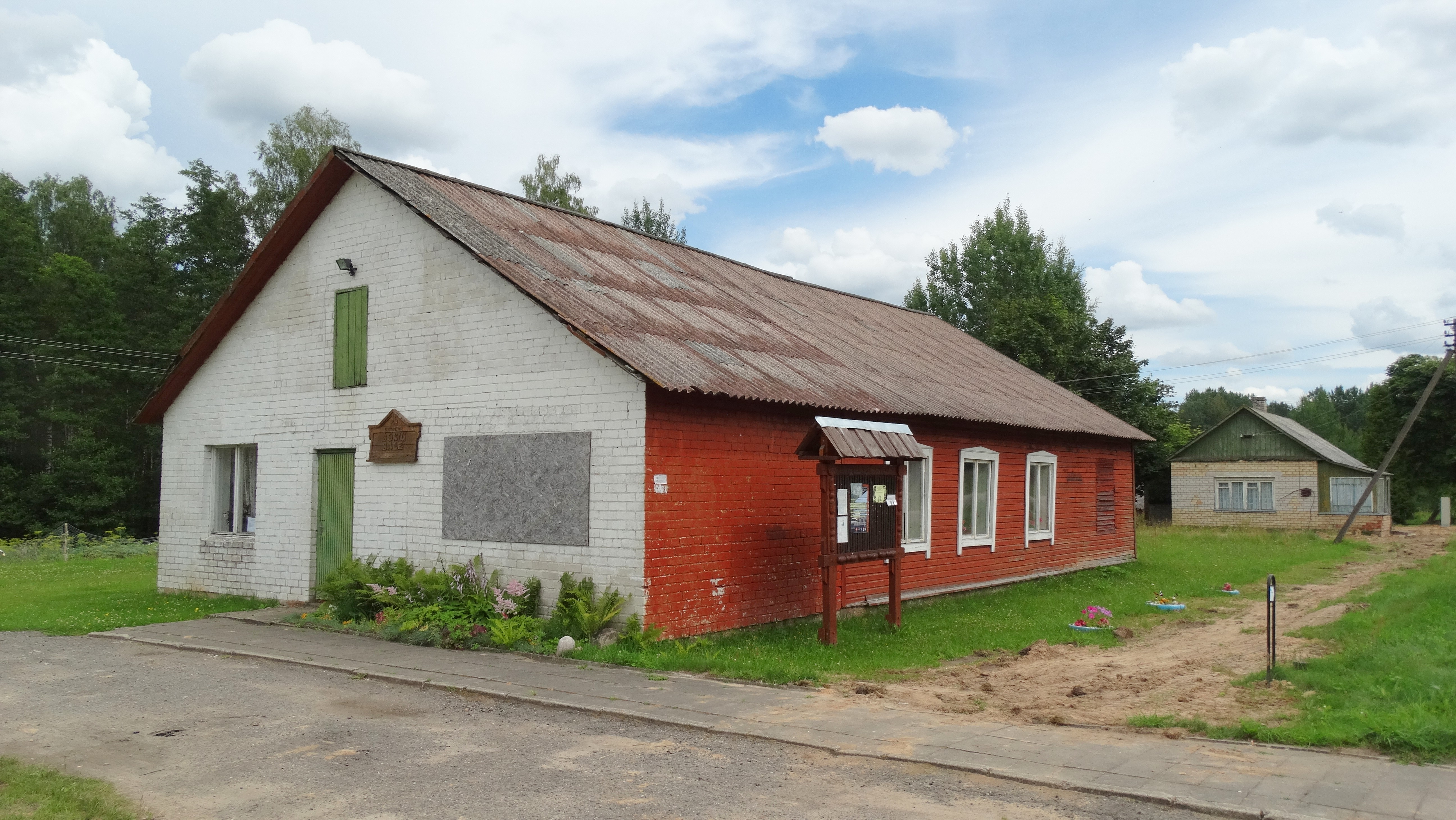 Grybėnai, Ignalina District, Lithuania